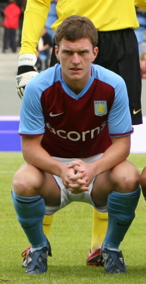 Craig Gardner